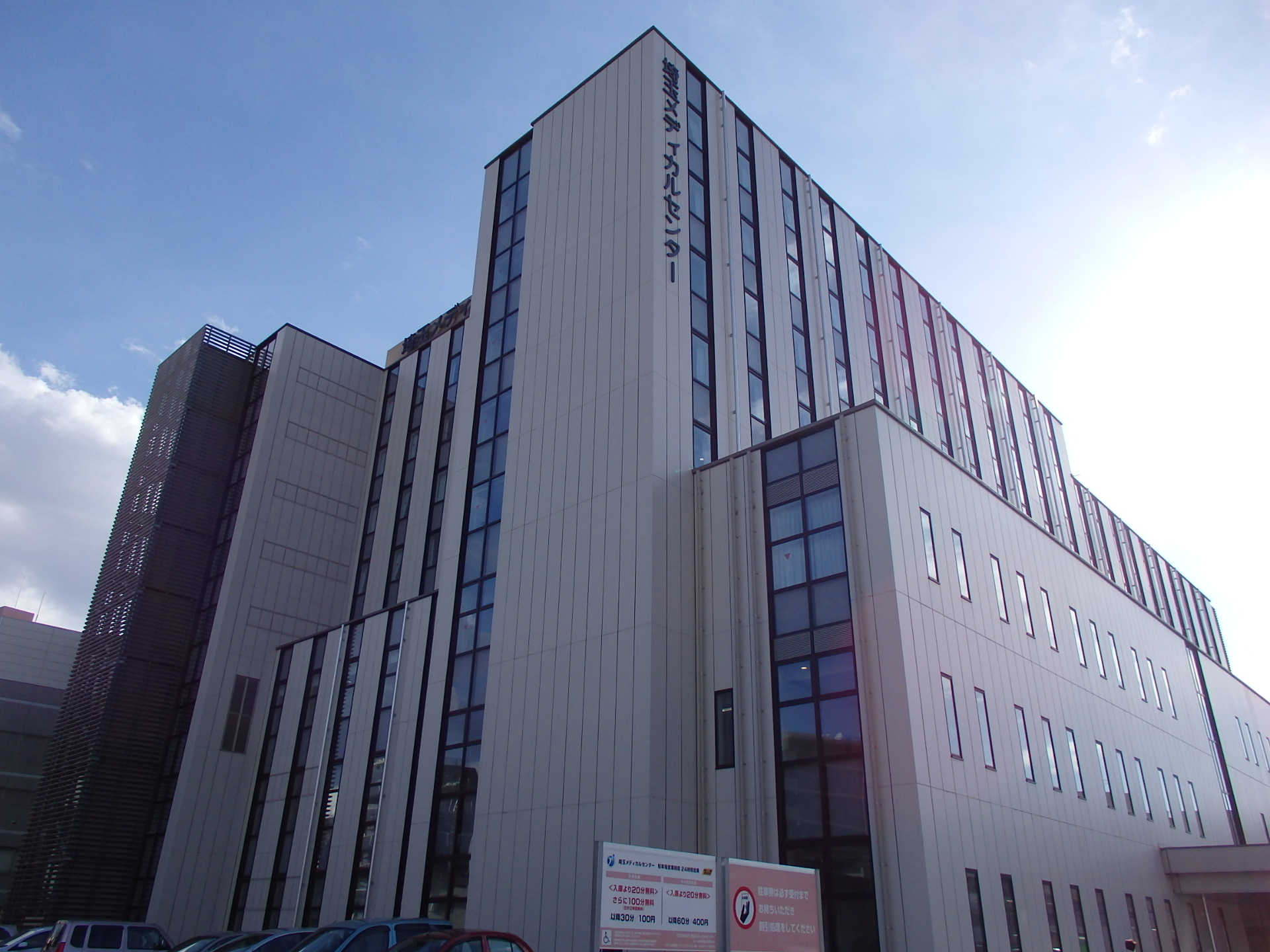 Saitama Medical Center seen from the north